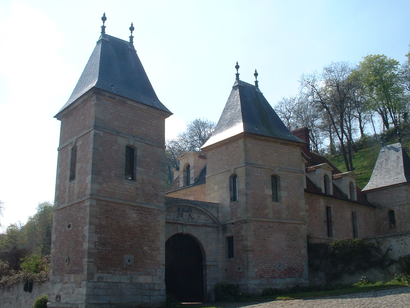 Château de Médan. The Château de Médan, in Les Yvelines, built during the XVth century was used as the mansion of the evil Boris Williams in the French series Belphégor, Claude Barma, 1965.